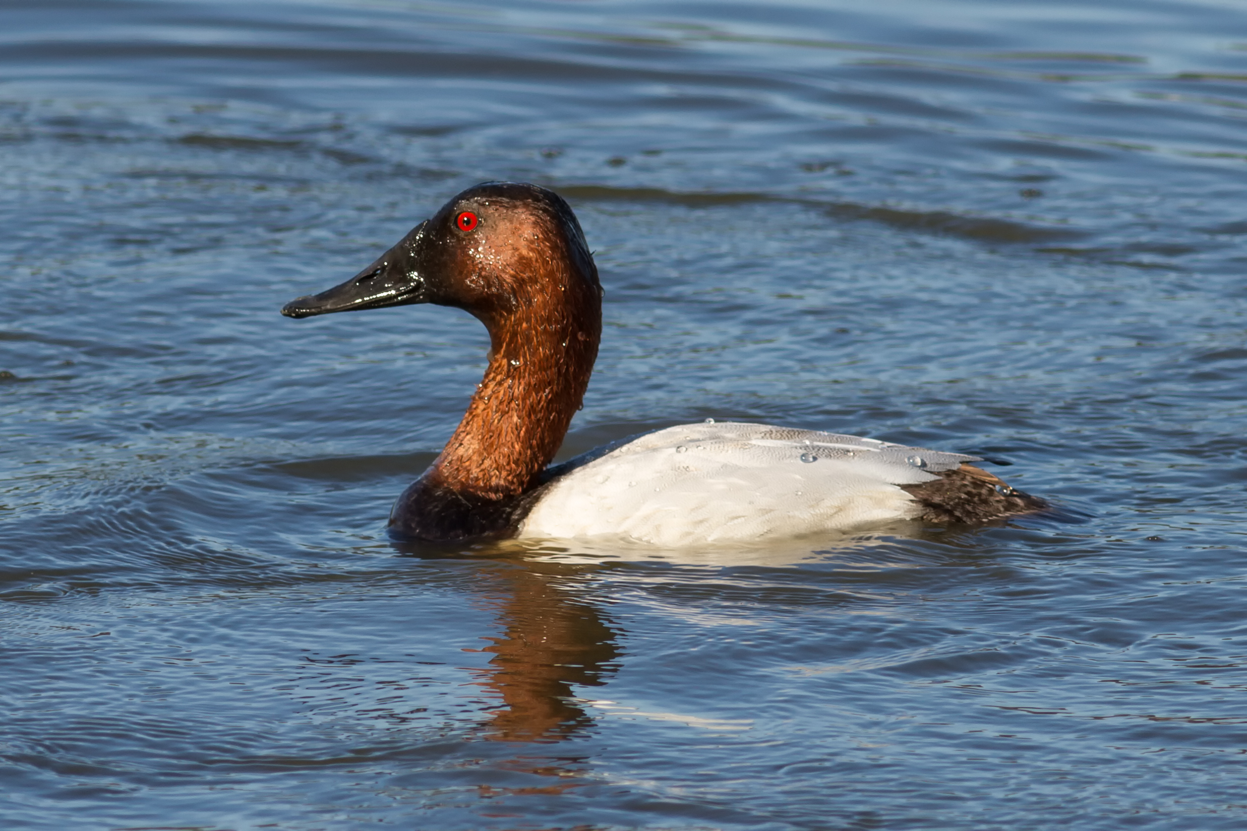 Canvasback (Aythya valisineria) at Las Gallinas Wildlife Ponds near San Rafael, Marin County, California.